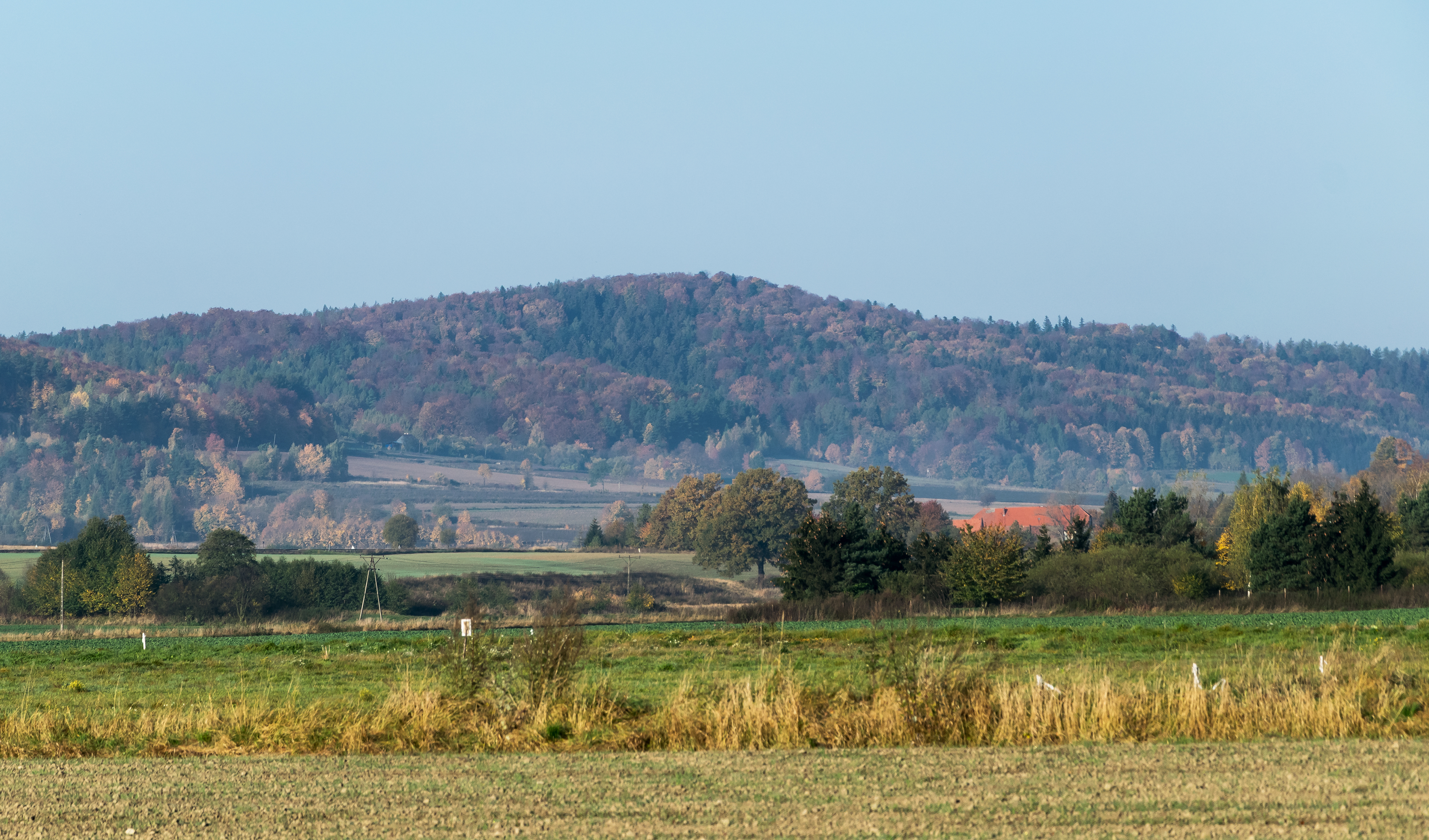 Dębowa, Krowiarki, Sudetes